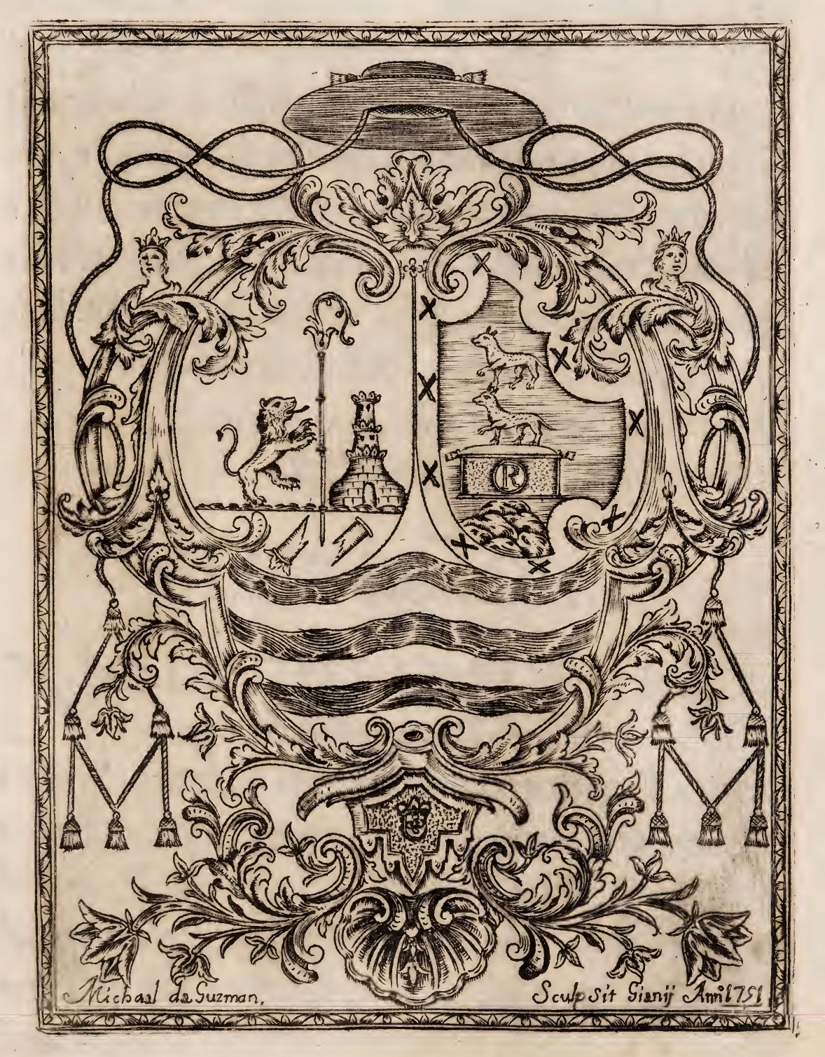 Heraldic shield of Fray Benito Marín, Bishop of Jaén, 1751